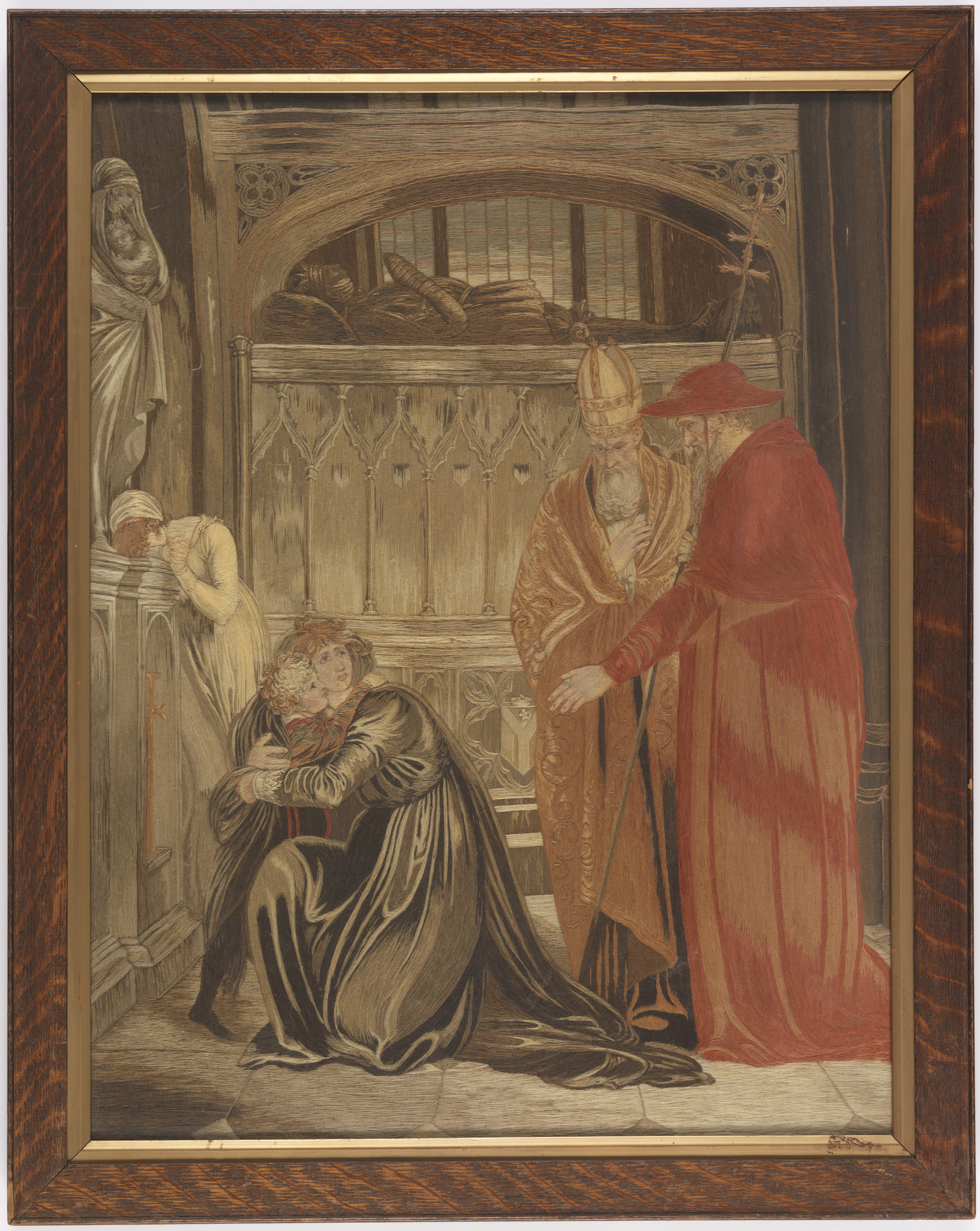 Kneeling figure of a woman clutching a child with a cardinal and a bishop at the right and a weeping woman at the left. The scene is the interior of a church, with a tomb of a knight in the background.